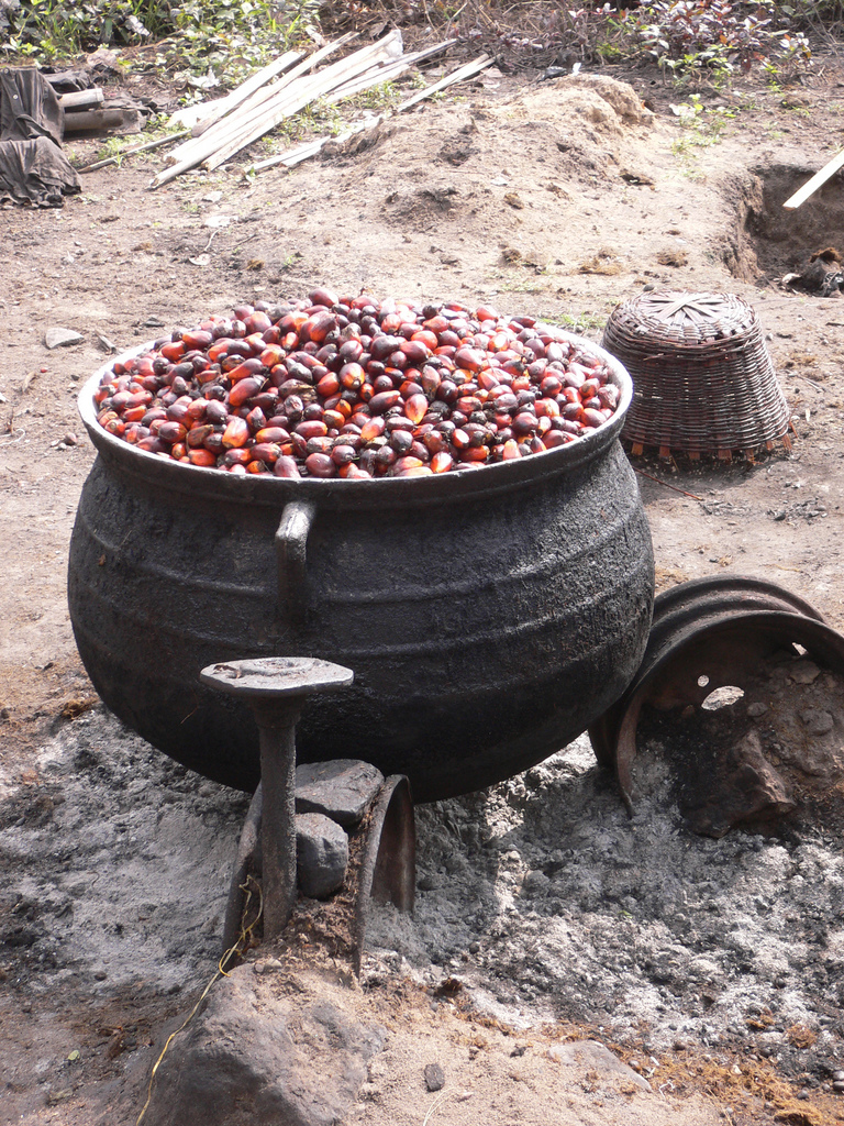 Cooking palm nuts to soften the nuts for oil extraction